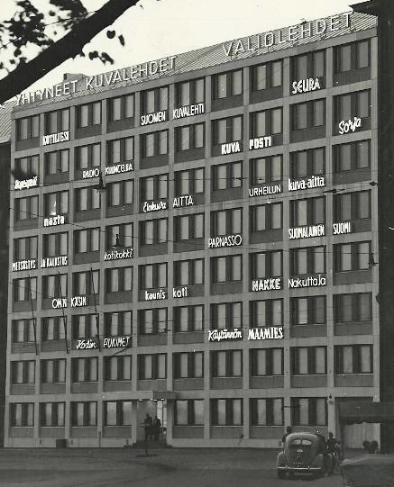 Building of magazine publishers Yhtyneet Kuvalehdet and Valiolehdet in Hietalahdenranta, Helsinki, architect Matti Lampén, 1957